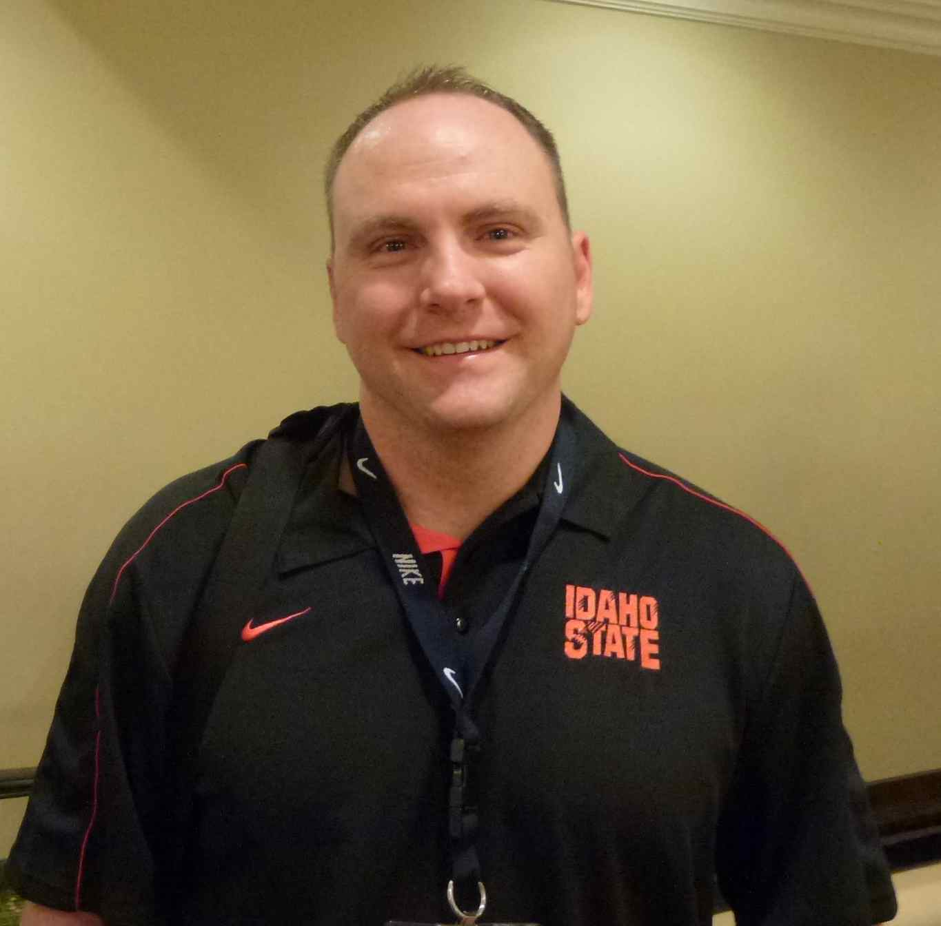 Seton Sobolewski (so-bo-LES-ski) is the head coach of the Idaho State Bengals women’s basketball team, and is the winningest coach in Idaho State women’s basketball history. He surpassed his predecessor Jon Newlee with his 94th win on February 1, 2014 against his alma mater Northern Arizona. This photograph was taken at the 2103 WBCA Convention in New Orleans.